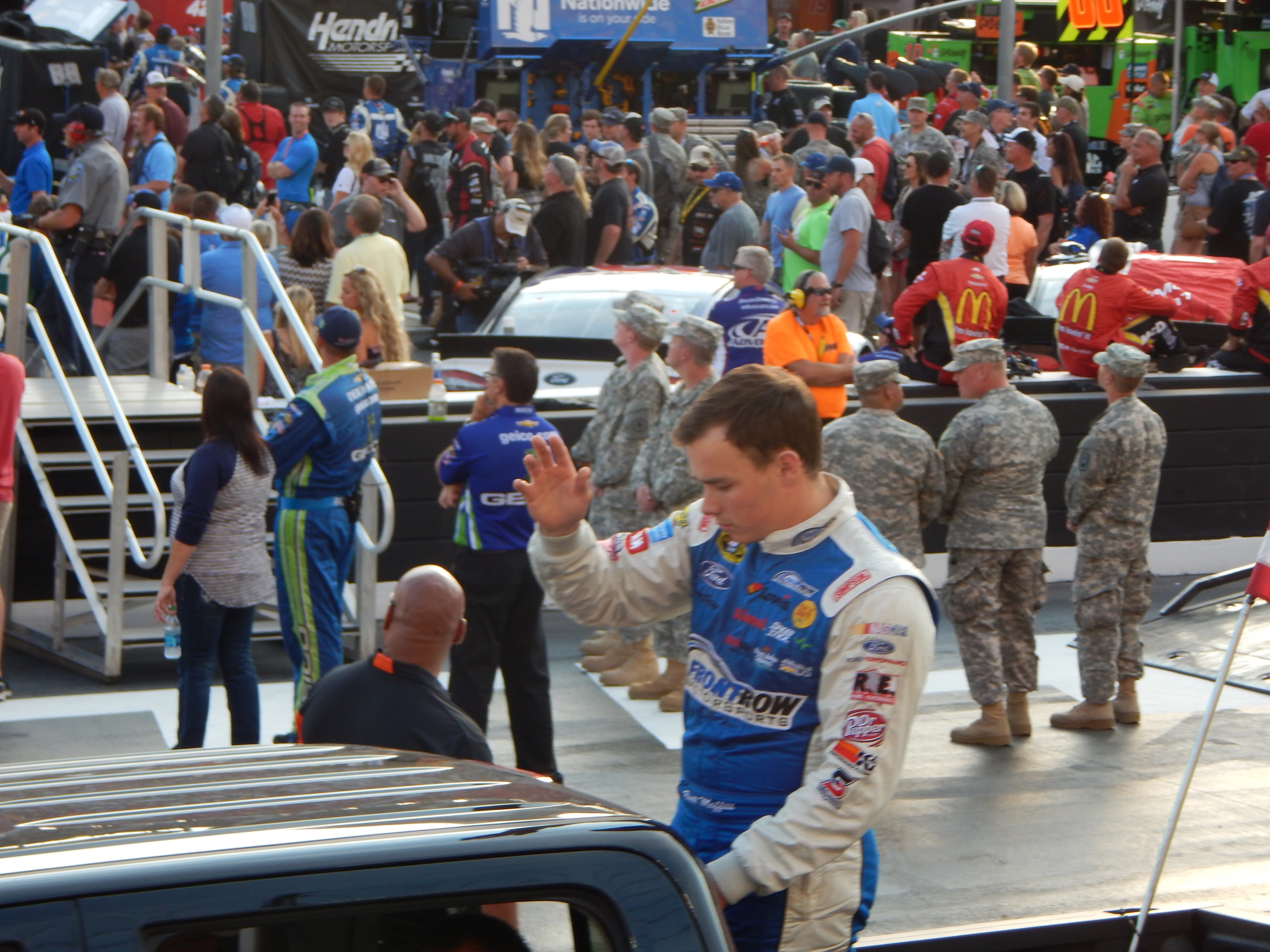 Brett Moffitt being introduced at Bristol Motor Speedway for the Irwin Tools Night Race.